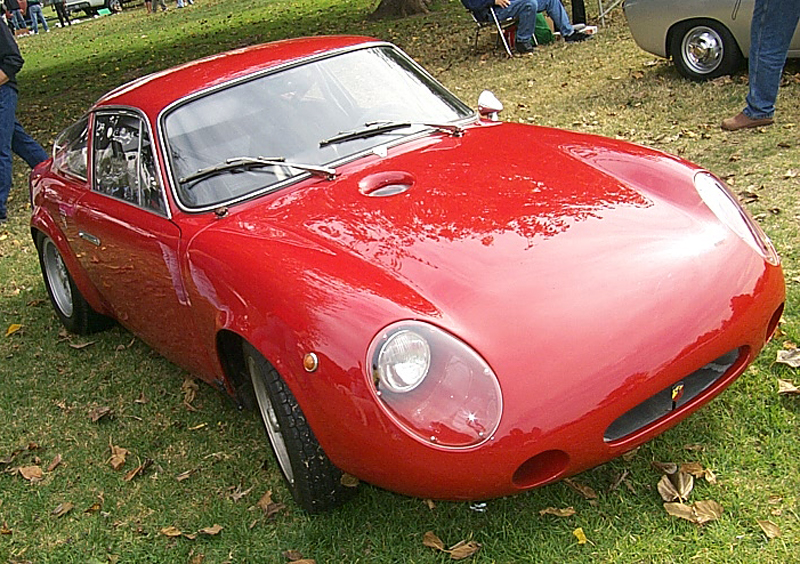 Abarth-Simca 1300 (I reckon - could be a 2000?)